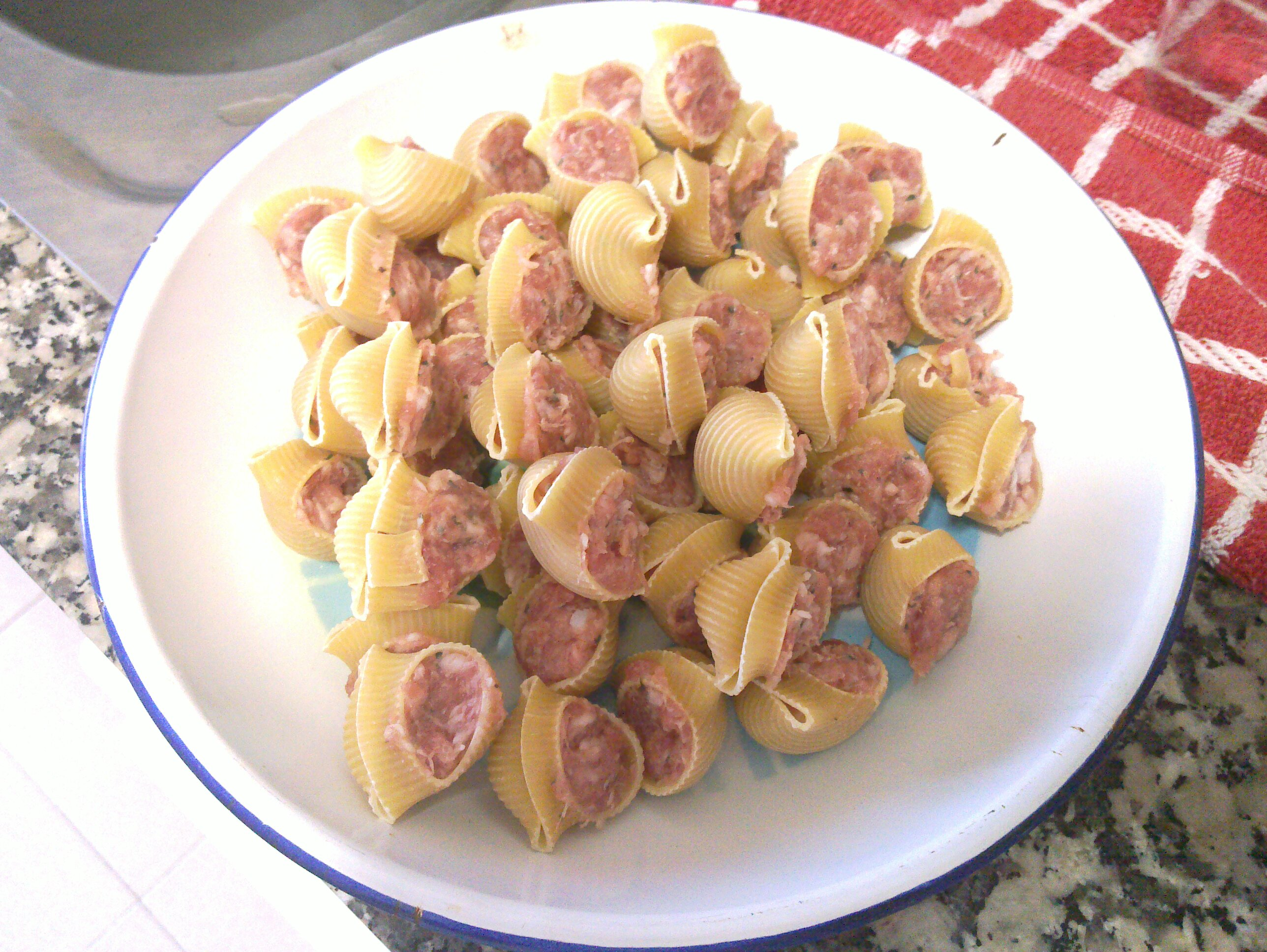 Galets (typical Xmas Catalan pasta) filled with meat to be poured into the broth (escudella)